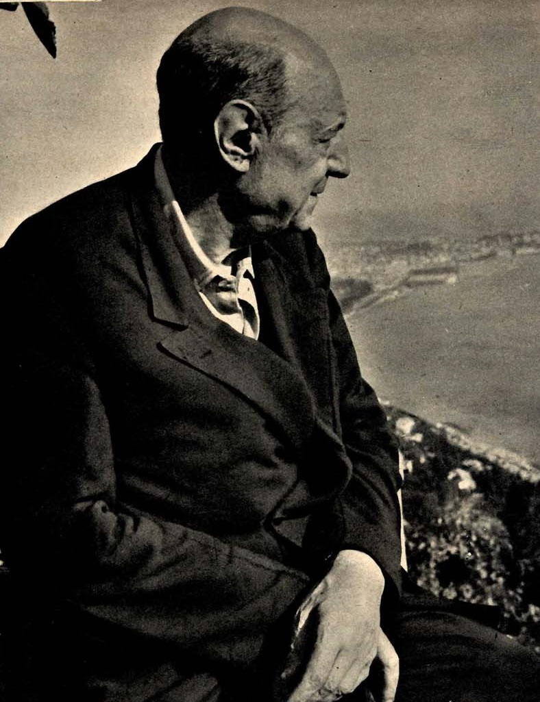 Italian poet and writer Umberto Saba